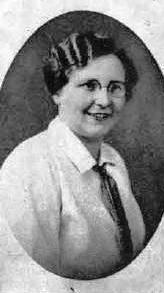 Ana Wambrechtsamer (1897 - 1933), Austrian-Slovene writer and translator